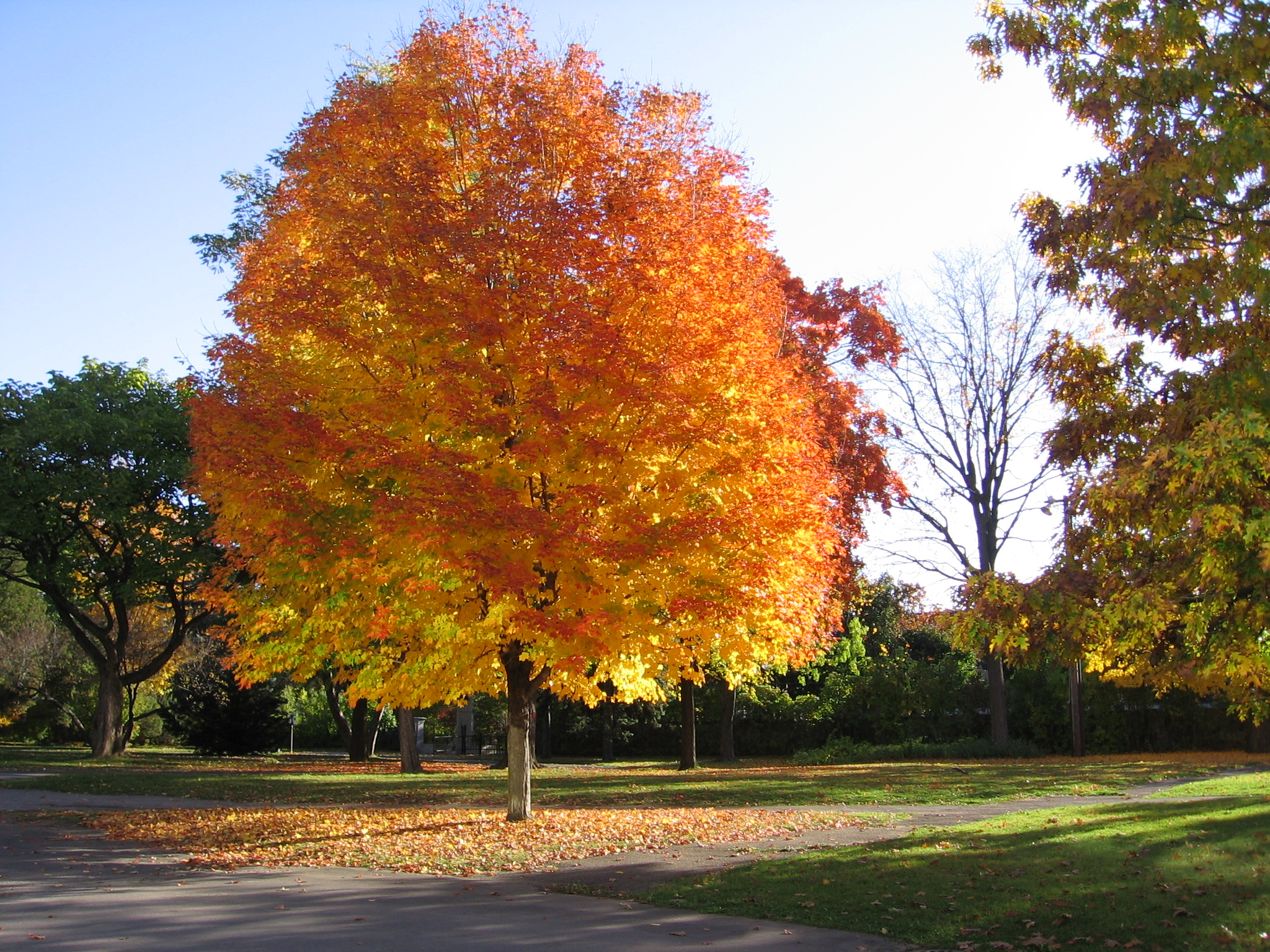 Maple tree in its full fall splendor, in Montréal, Québec, Canada, October 17, 2008